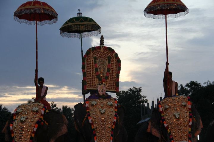 The Thrikkakara Vamanamoorthy idol on an elephant in the Aarattu procession during the Onam festival.